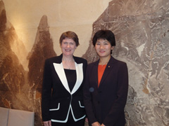 Helen Clark, Administrator of the United Nations Development Programme, met Chinami Honda, Parliamentary Secretary for Foreign Affairs, in Japan on November 24, 2009.